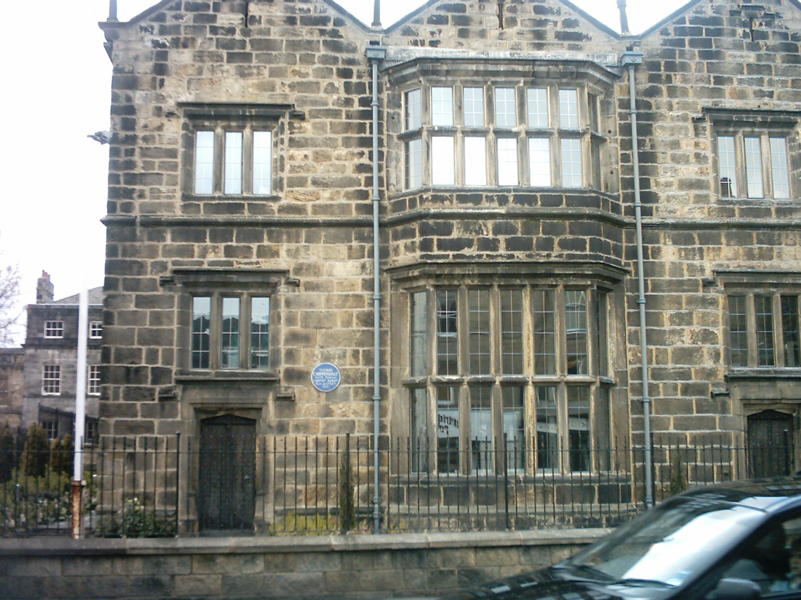 The Thomas Chippendale Workshop in Otley, West Yorkshire.